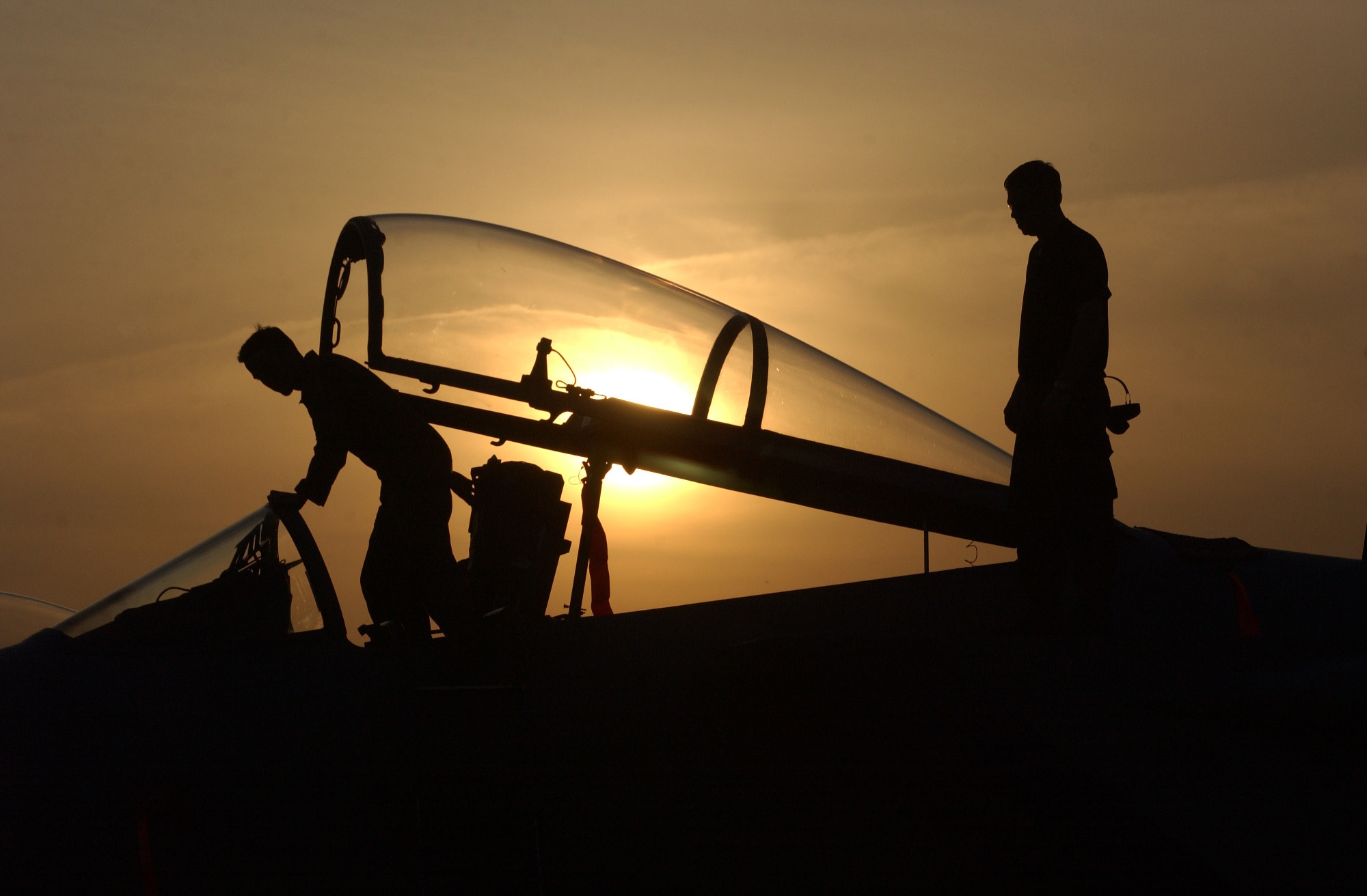 GWAILOR AIR FORCE STATION, India -- Crew chief Staff Sgt. Jason Carlson (right) waits for Capt. Grant Lewis to exit so he can put his F-15 Eagle to bed for the evening. Sergeant Carlson and Captain Lewis, along with 140 airmen from Elmendorf Air Force Base, Alaska, are participating in Cope India 04 here. Cope India is a bilateral dissimilar air combat exercise. Sergeant Carlson is assigned to the 19th Aircraft Maintenance Unit, and Captain Grant is assigned to the 19th Fighter Squadron. (U.S. Air Force photo by Tech. Sgt. Keith Brown)